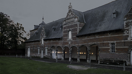 Out from the Abby into the park at Leuven: Charly Steigers work for "epifanie" 1999 iluminates some more marginal structures